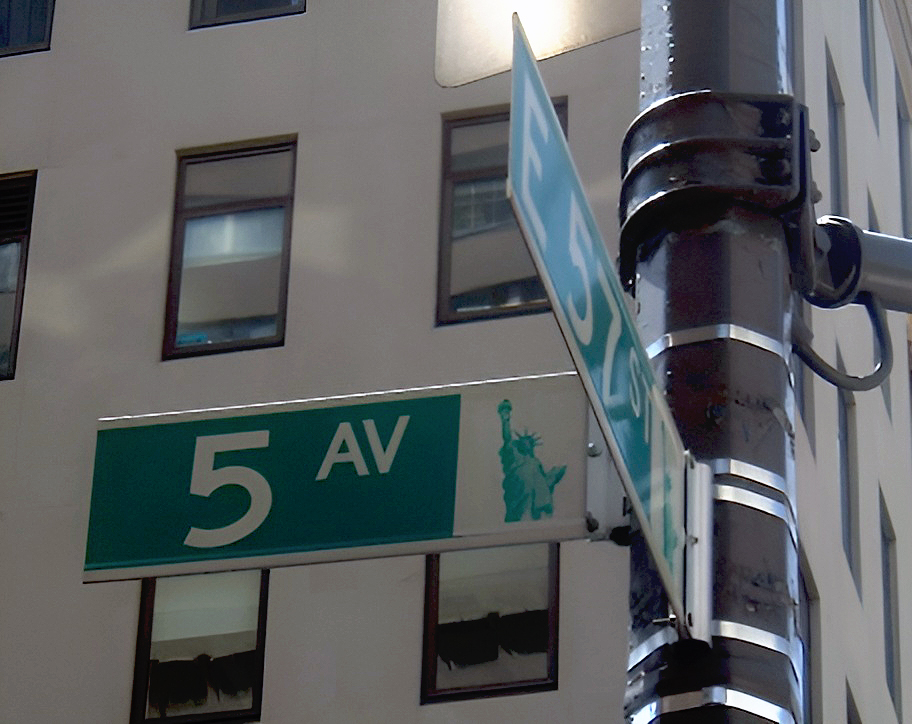 Street sign at corner of Fifth Avenue and East 57th Street in New York City.